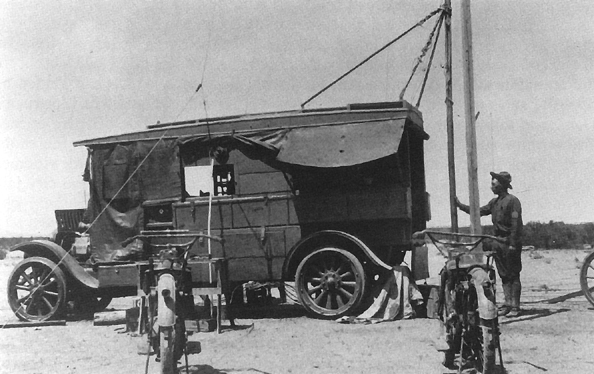 Radio Tractor, in New Mexico